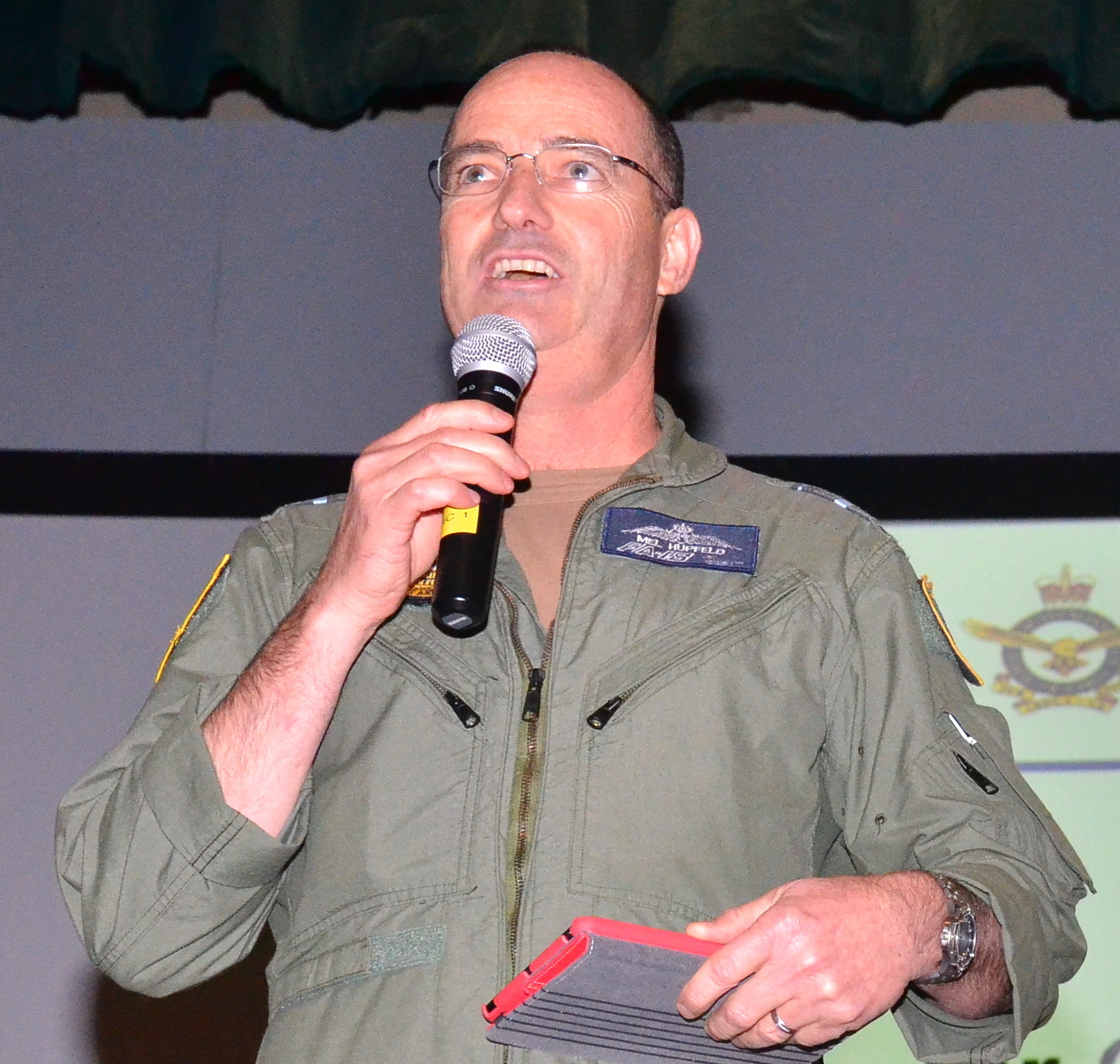 Air Vice Marshal Melvin Ernest Glanville "Mel" Hupfeld DSC